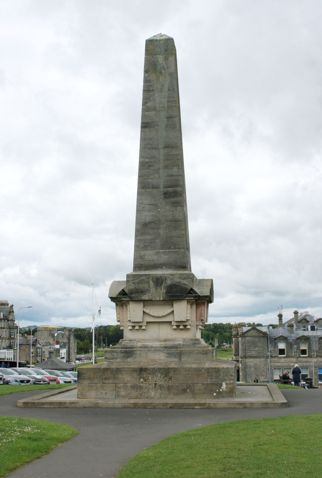 The Martyrs' Monument